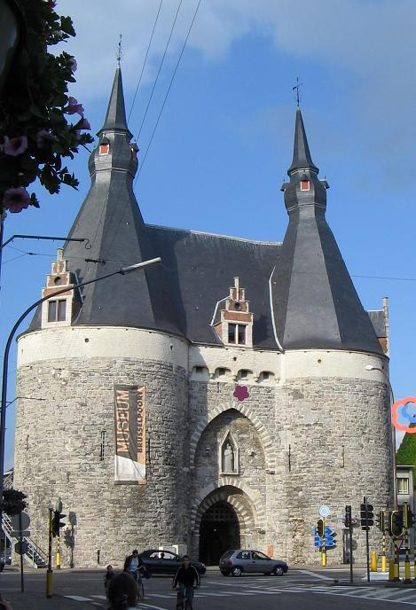 The Brusselpoort in Mechelen, Belgium.